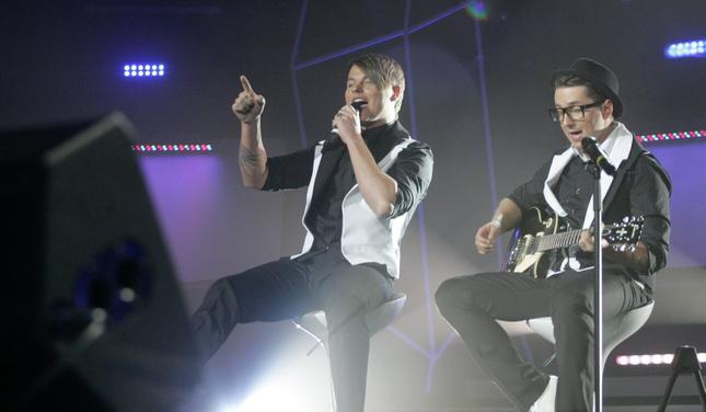 Musiqq